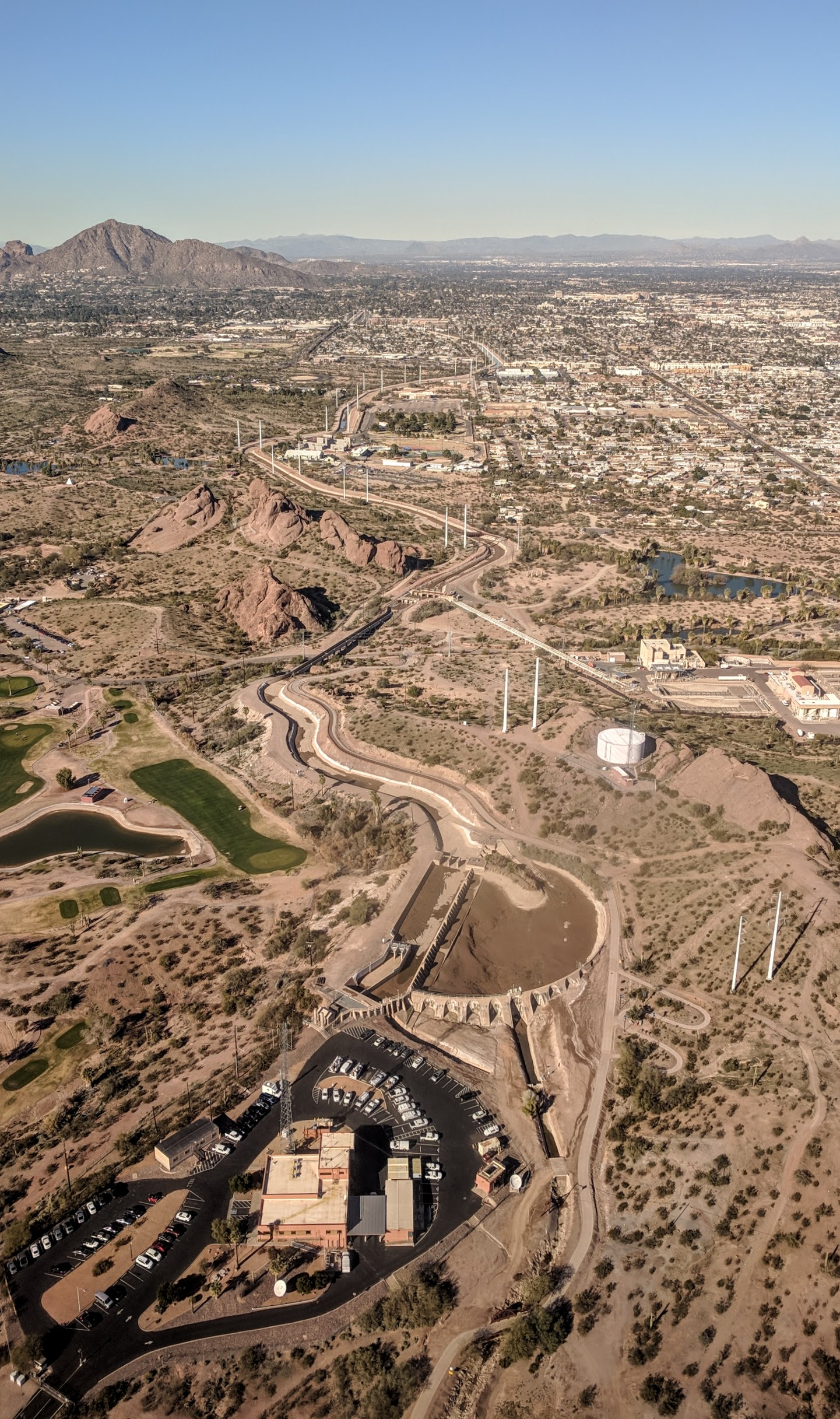 The Cross Cut Canal dam and forebay, aerial view from the south, on approach to Phoenix Sky Harbor from the east